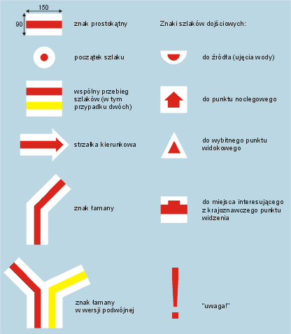 blazes of tourist trails in Poland